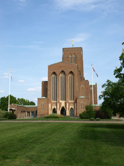 Guildford Cathedral